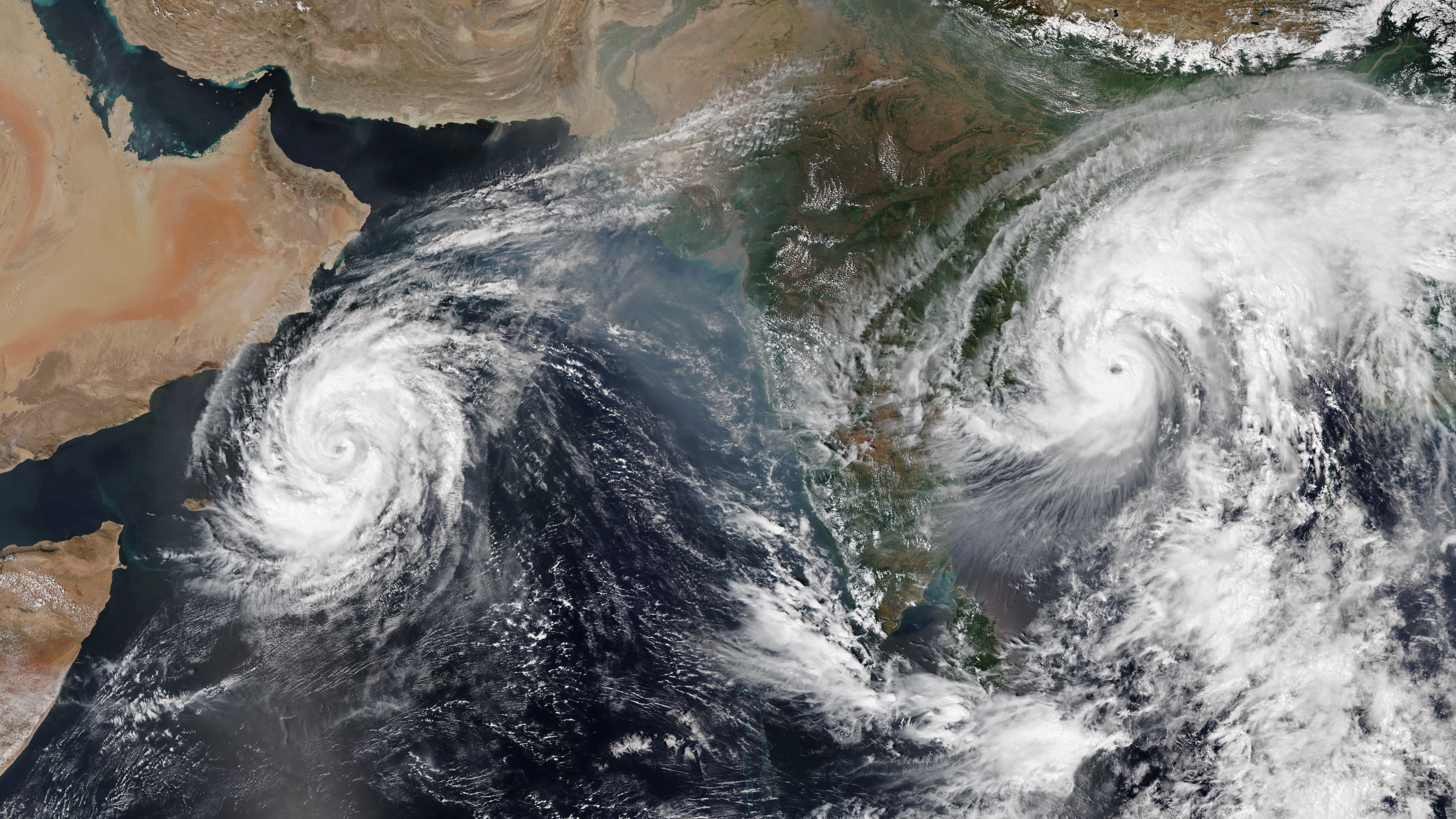 The NOAA-20 satellite captured this image on 10 October 2018 that two very severe cyclonic storms, Luban (left, at 0926Z) and Titli (right, at 0745Z), were simultaneously active over the Arabian Sea and the Bay of Bengal. It is the first time for two simultaneous cyclonic storms over the North Indian Ocean since reliable records.